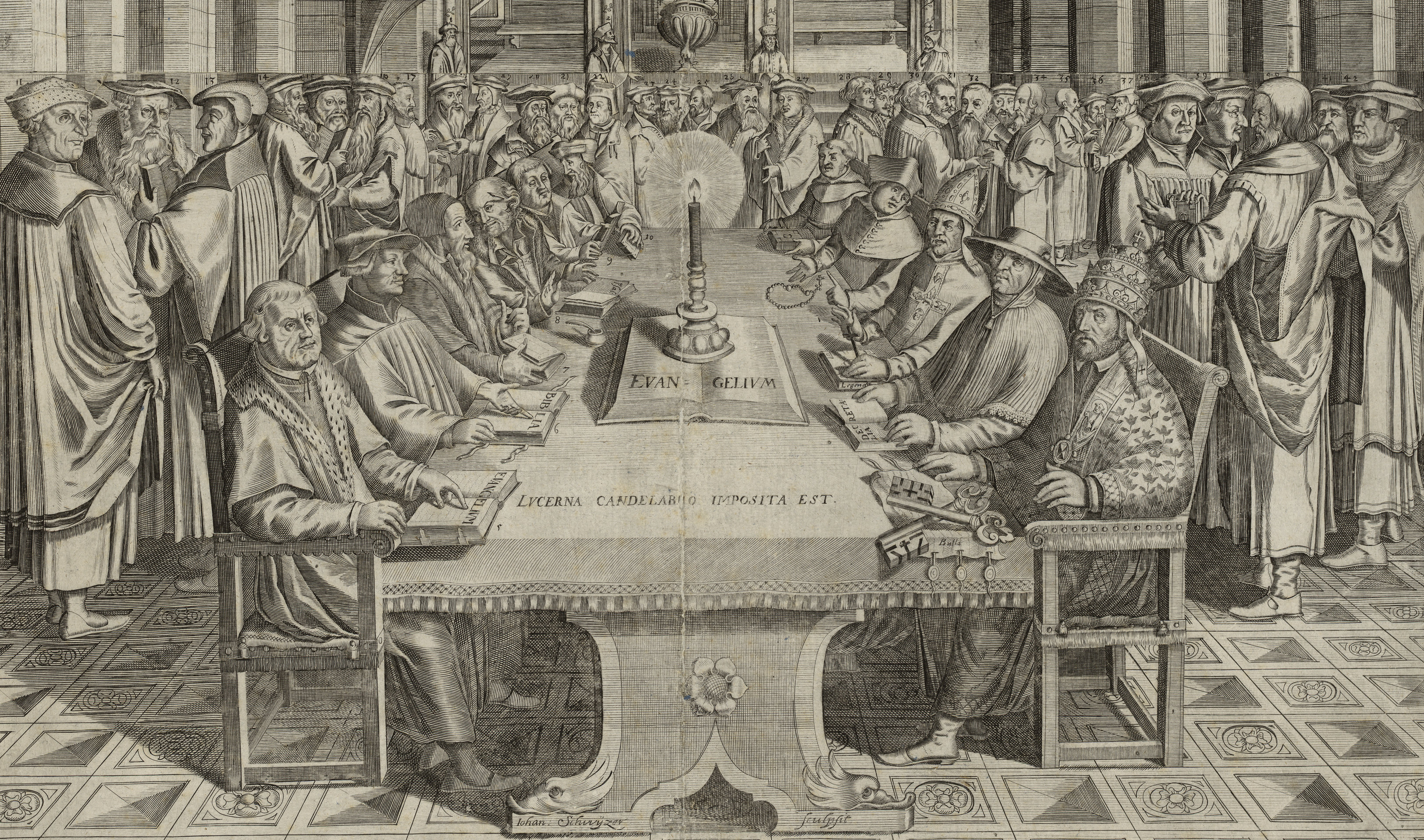 Cropped version of: Zentralbibliothek Zürich - Effigies praecipuorum illustrium atque praestantium aliquot theologorum - 000008283